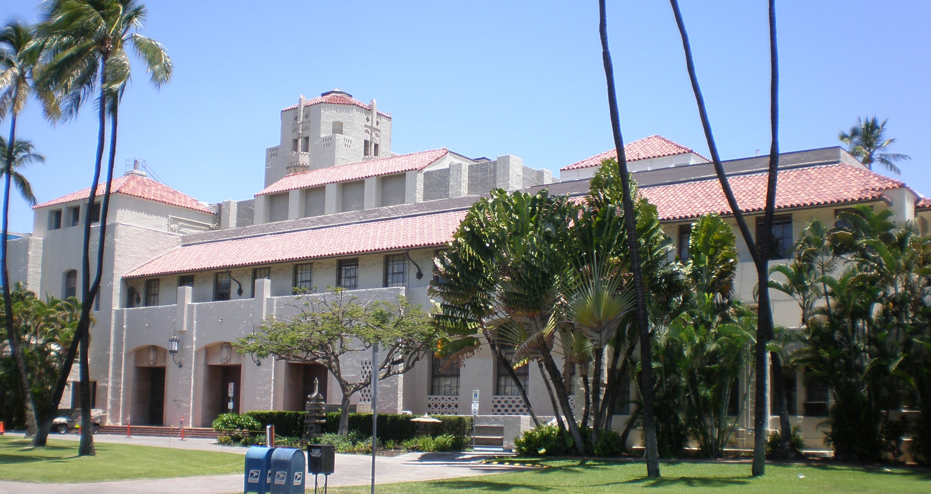 Wide front view of Honolulu Hale, the City Hall of Honolulu, Hawaii